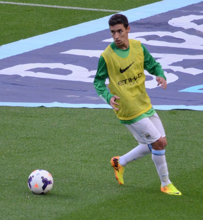 Jesús Navas warming-up for Manchester City F.C. before first game of the 2013/14 season against Newcastle United on 19 August 2013.